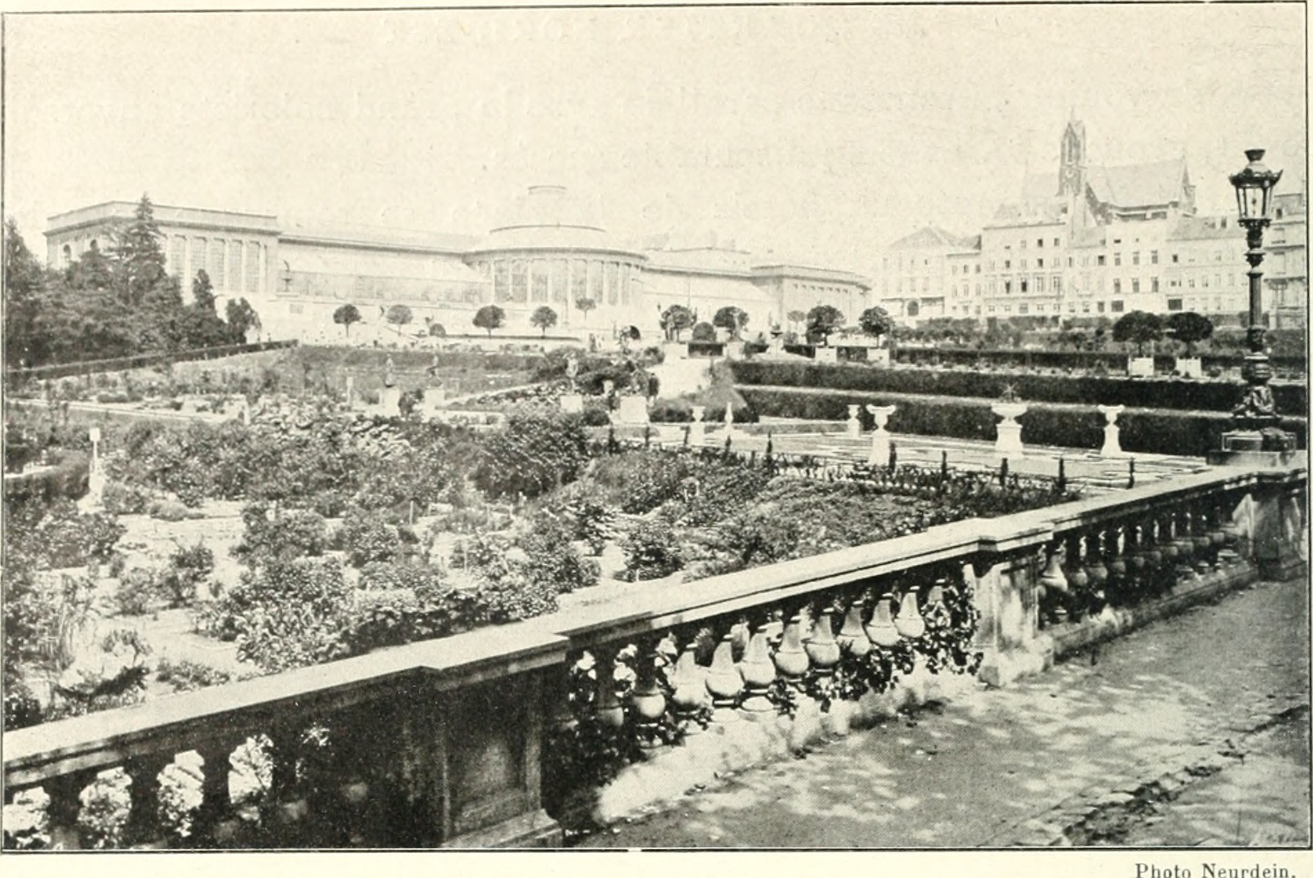 Title: Bruxelles Year: 1910 (1910s) Authors: Hymans, Henri, 1836-1912 Subjects: Art -- Belgium Brussels Brussels (Belgium) -- Description and travel Publisher: Paris H. Laurens Text Appearing Before Image: Attelage de chiens à Bruxelles. Text Appearing After Image: I.e Jardin botanique. CHAPITRE XVIII VERS LE NORD Le jardin botanique. — Lhôpital Saint-Jean. — La rue Neuve et la place des Mar-tyrs. — Le théâtre de la Monnaie. — La poste centrale. — Léglise du Béguinage.— Une voie triomphale : la rue de Laeken. — Le théâtre communal. — Les vieux(juais. — Bruxelles qui sen va! Nous avons regagné la ligne des boulevards circulaires. Le tramwa)se dirigeant vers le nord, par lavenue des Arts, nous a fait passer enrevue une succession de riches demeures particulières pour, en quelquesminutes, nous déposer au haut du boulevard du Jardin botanique. De ce))oint culminant, le promeneur voit se perdre, jusquà lhorizon extrême,la ligne des boulevards, dabord en forte pente, puis se relevant auxsommets de Koekelberg, où sédifie la basilique nationale du Sacré-(^œur, dont Léopold II voulut poser la première pierre en 1905. A mi-côte, lhôpital Saint-Jean, vaste construction séparée de la ruepar une grille et caractéristi